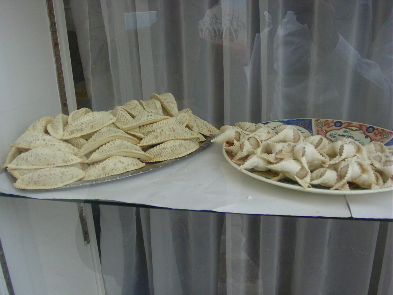 In Asilah (Morocco), a pastry shop showing delicious almond cakes (cornes of gazelle), similar to our doces do Algarve